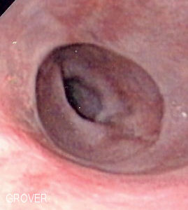 Endoscopic image of Schatzki ring. Permission to place into public domain obtained from patient. -- Samir धर्म 04:25, 17 May 2006 (UTC) Category:Endoscopic images